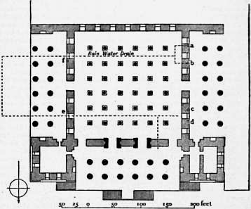 From R. P. Spier’s Architecture, East and West.Plan of the Hall of Xerxes. Illustration from 1911 Encyclopædia Britannica, article Architecture.